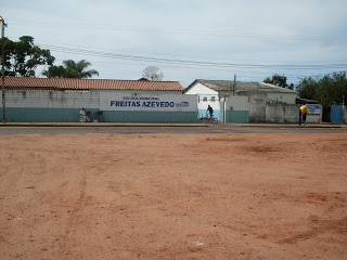 Escola freitas Azevedo Bairro morada nova miraporanga uberlândia